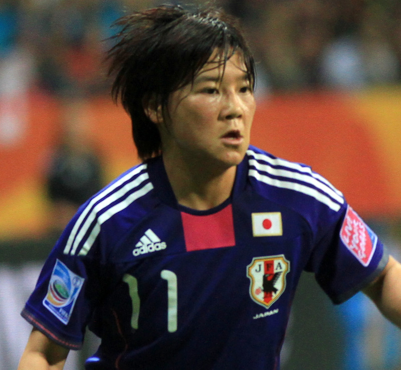 Shinobu Ohno playing for Japan against Sweden in the 2011 FIFA Women's World Cup semi finals